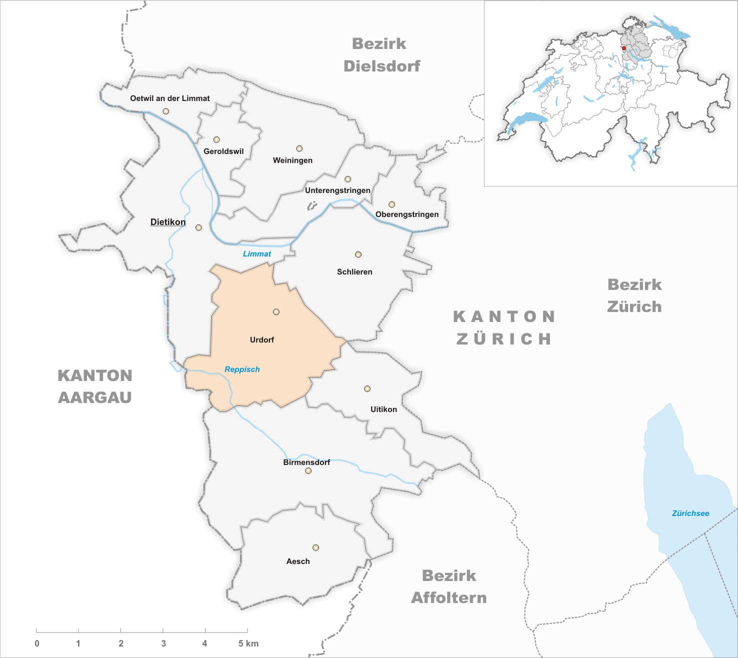 Municipality Urdorf